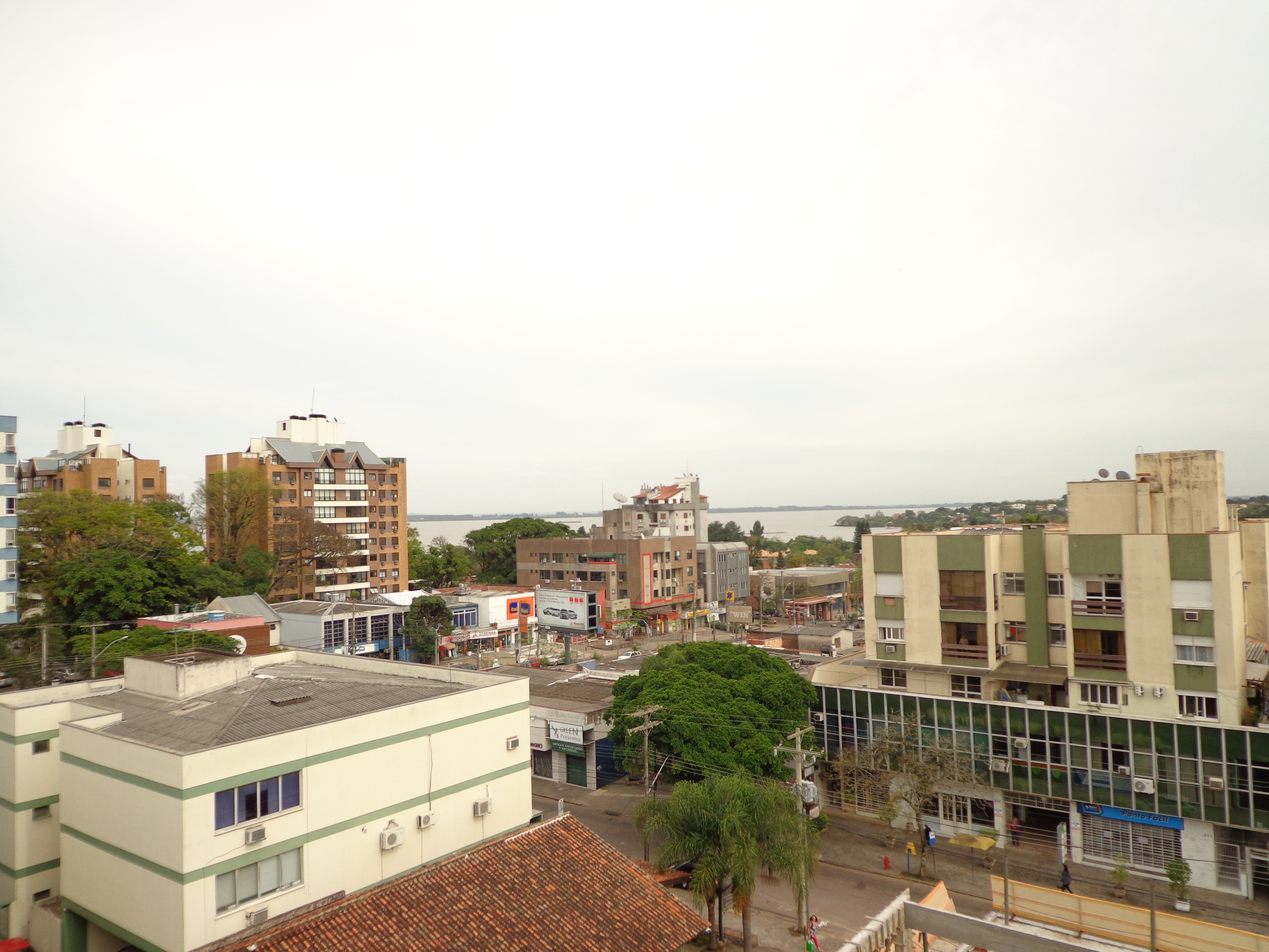 Tristeza, a neighborhood in the city of Porto Alegre, Brazil.